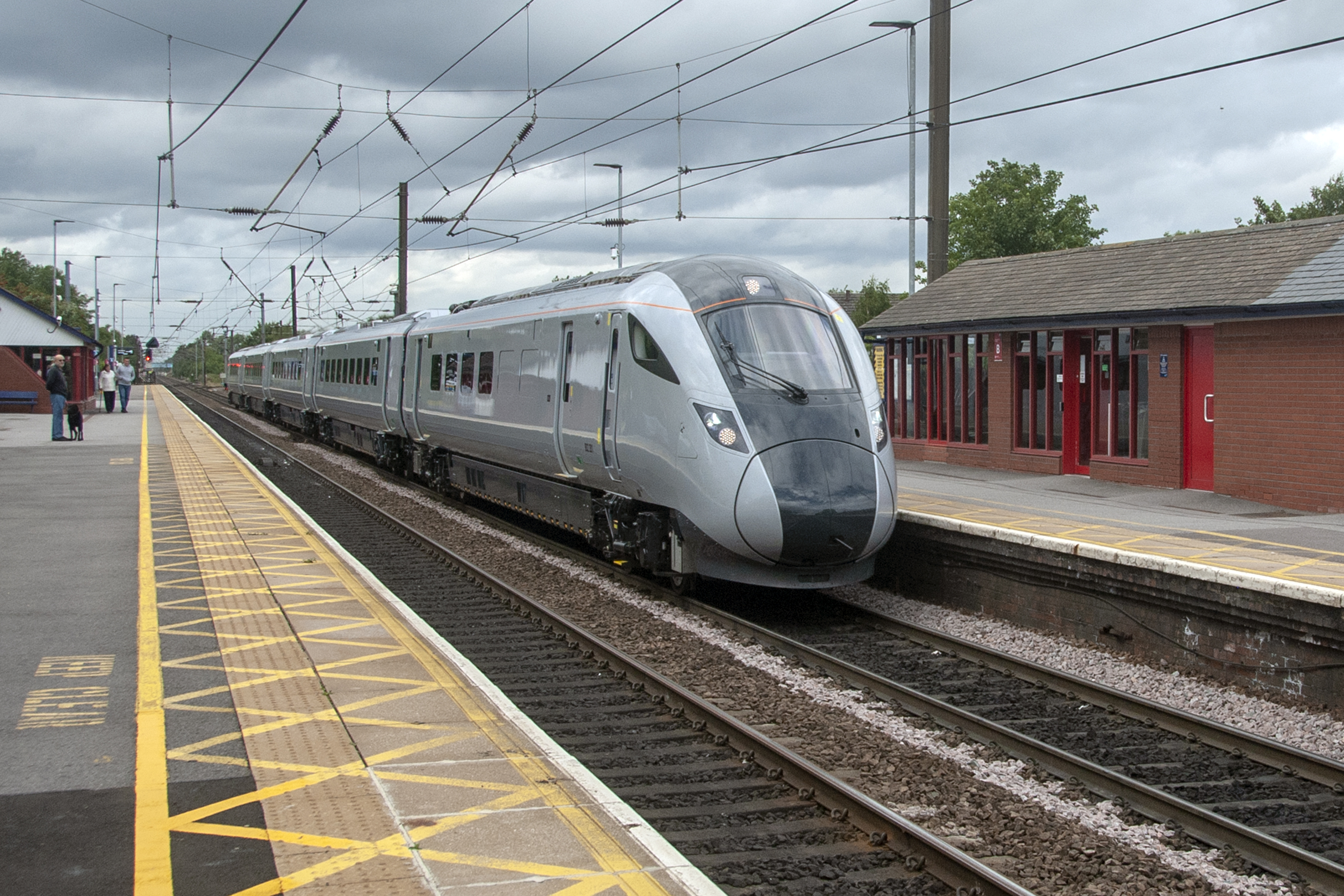 802201 on daytime testing at Northallerton on the ECML